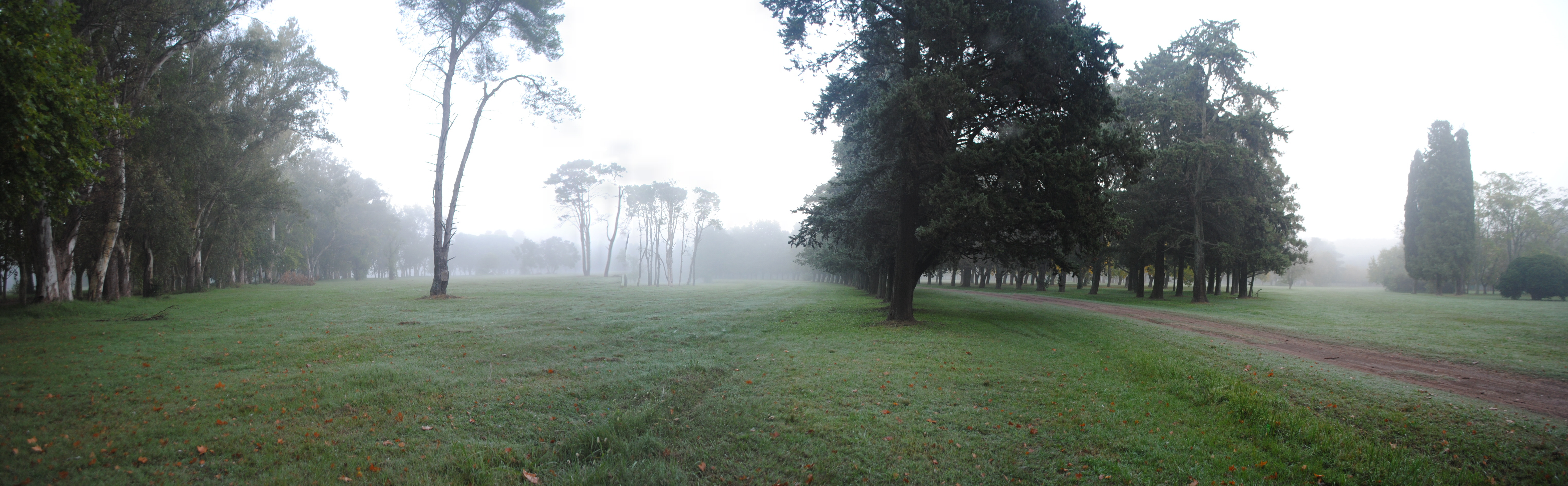 Morning fog at Parque Villarino, Santa Fe province, Argentina